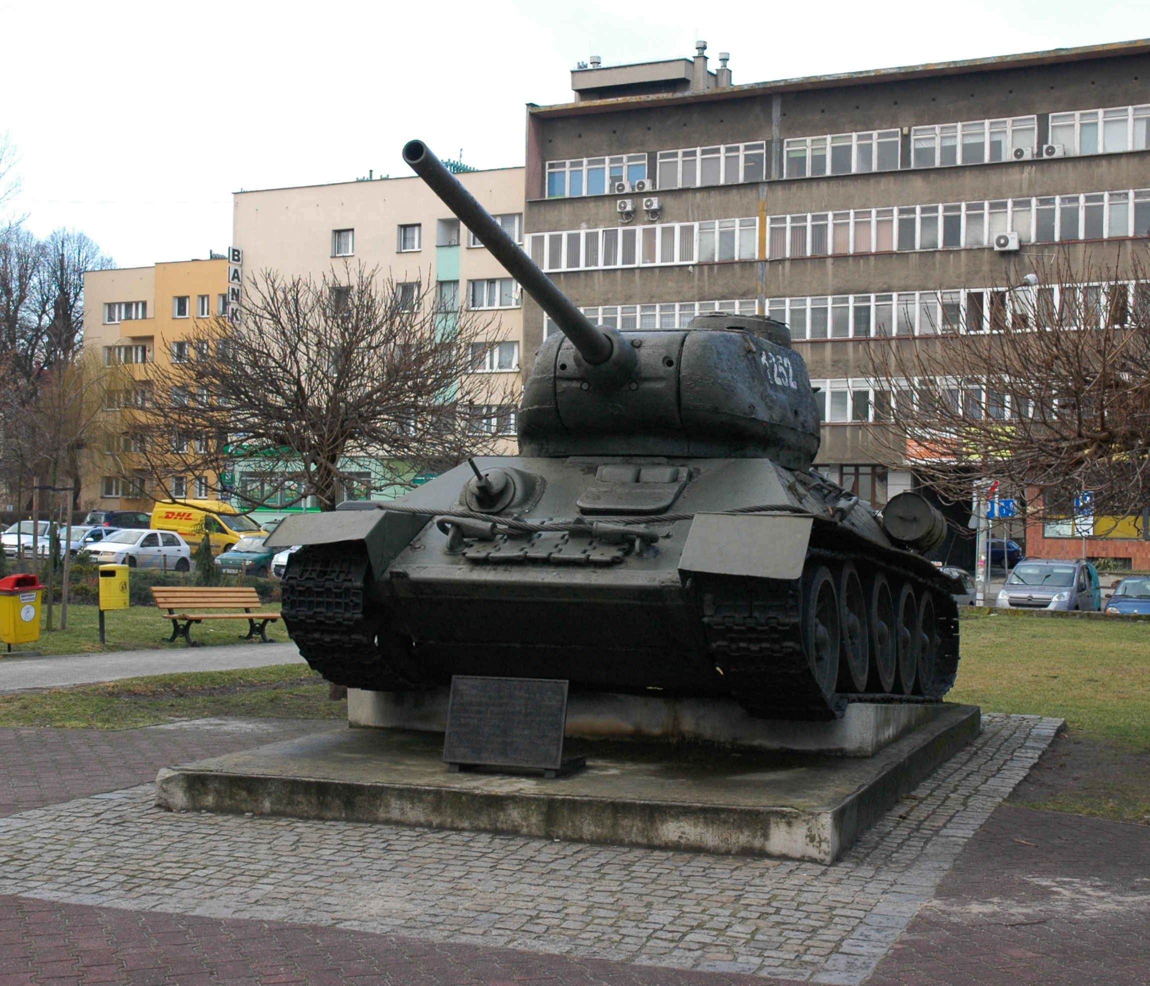 Liberation Memorial (T-34/85 Tank) in Gliwice.